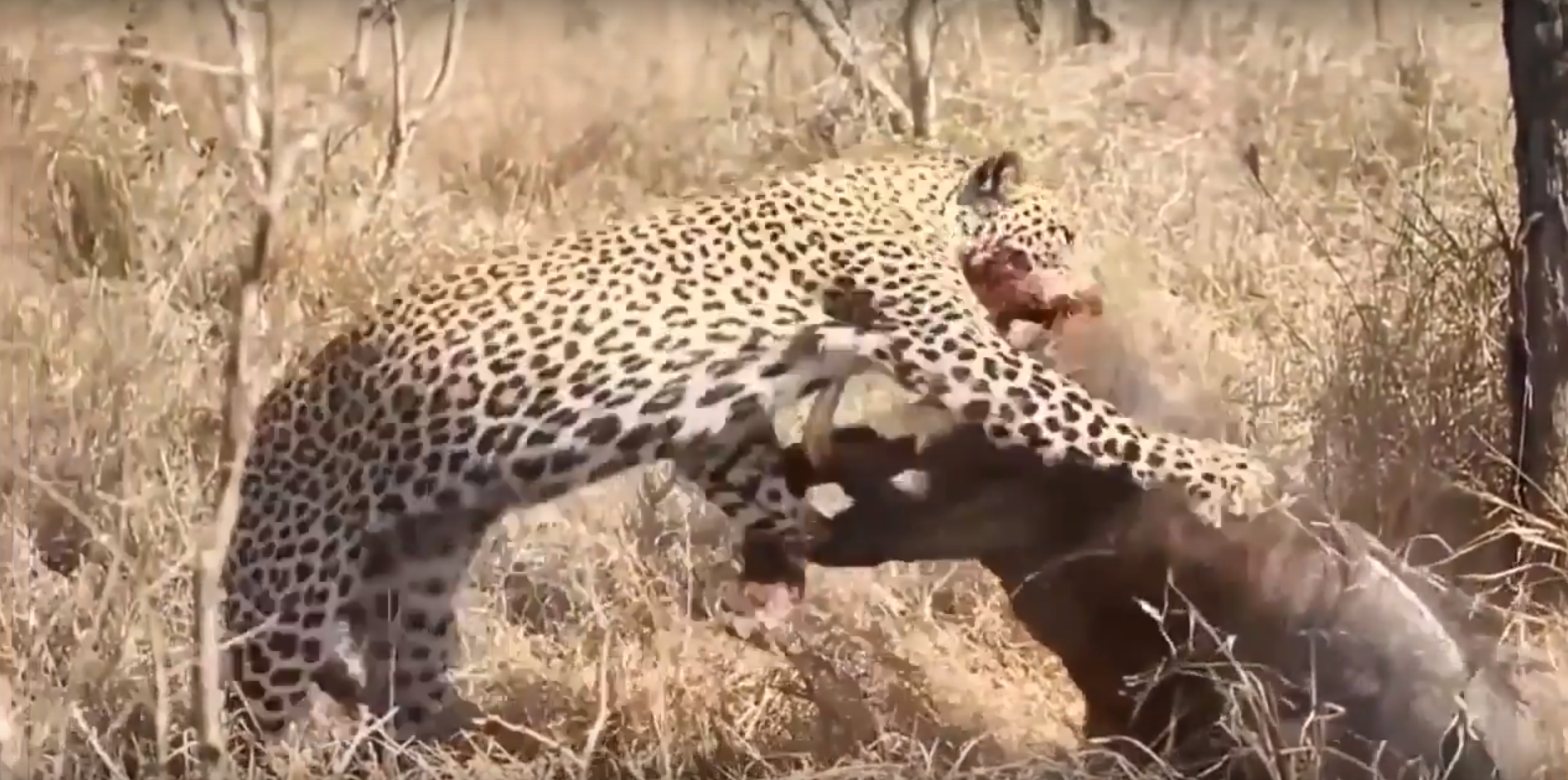 Leopard killing warthog